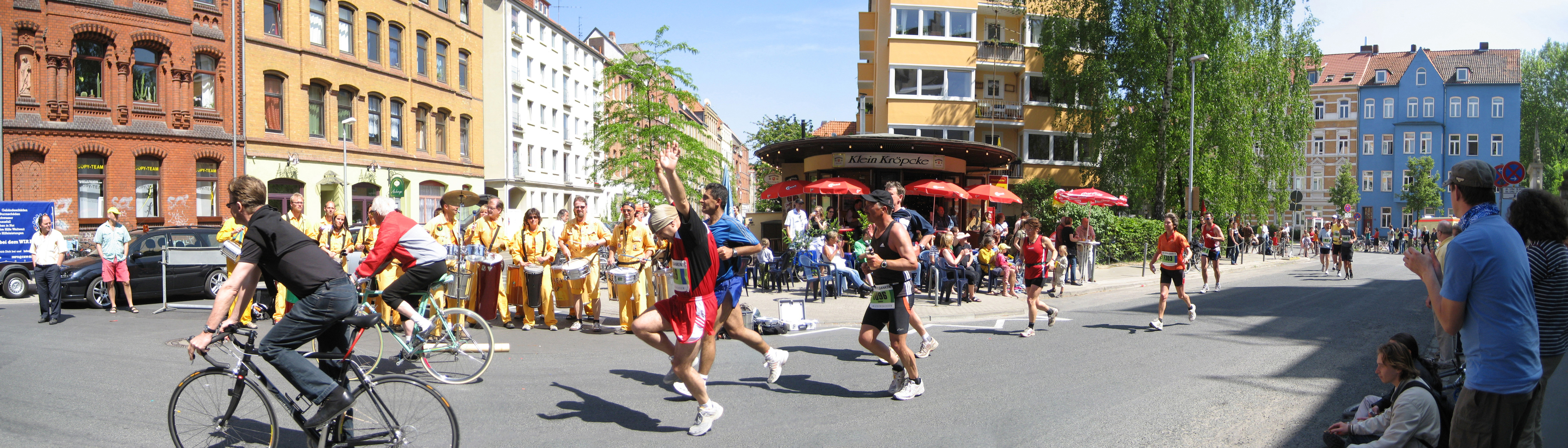 Marathon race in Hannover